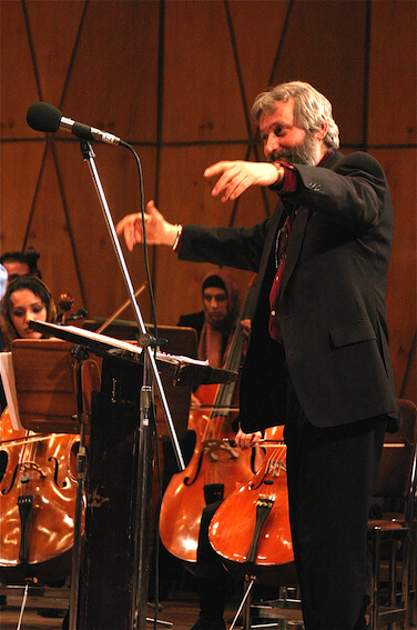 Farid Omran is conducting the Orchestra of Academia in Rudaki Hall in Tehran.